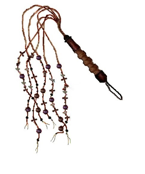 Flagra Horrible, Flagrum, Flagelo